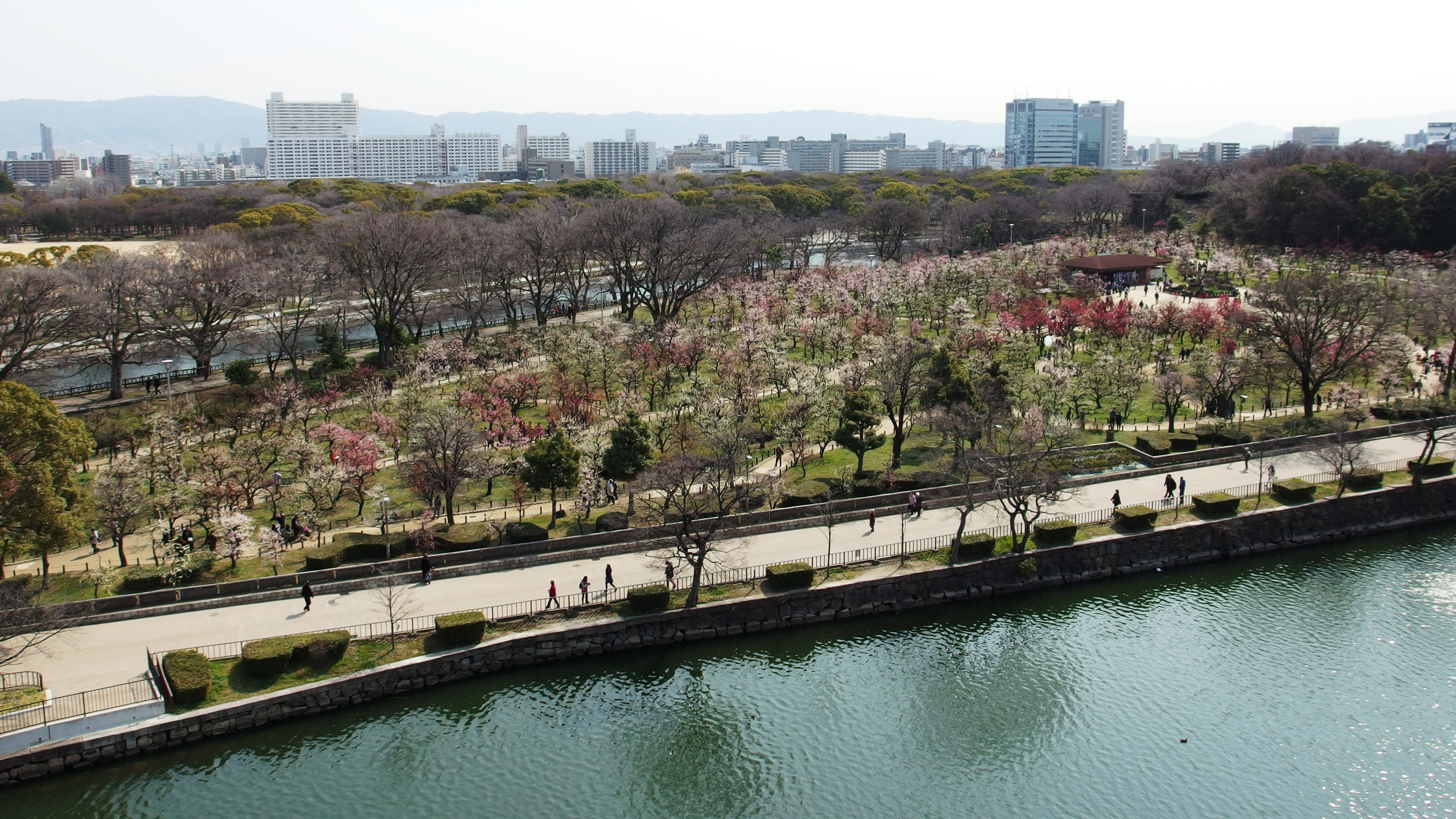 Osaka Castle Park in Osaka, Osaka Prefecture, Japan